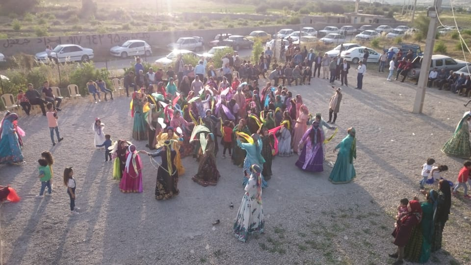 Handkerchief dance by Southern Lurs in Dehdasht